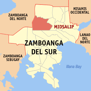 Map of Zamboanga del Sur showing the location of Midsalip